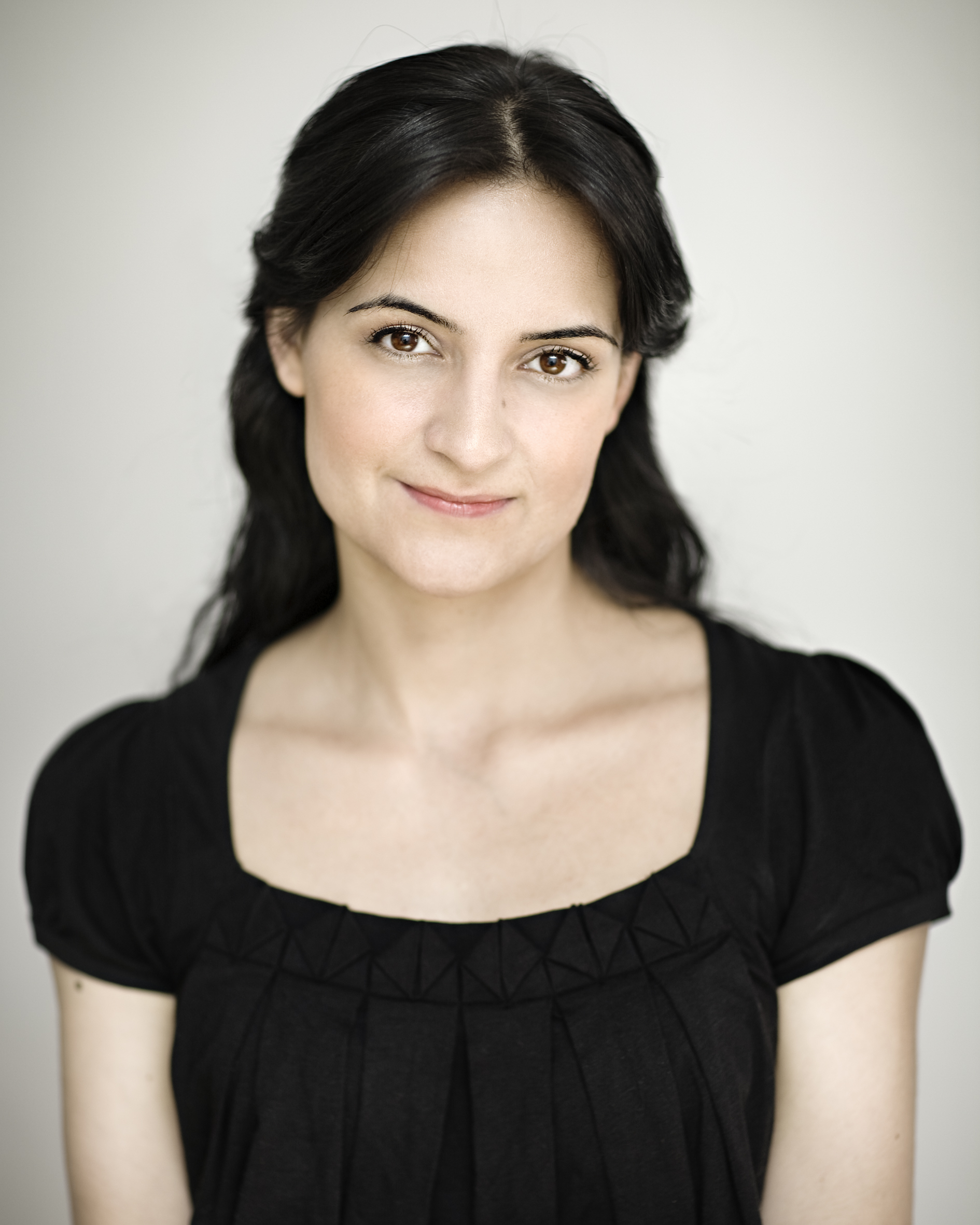 Swedish writer Marjaneh Bakhtiari in 2008